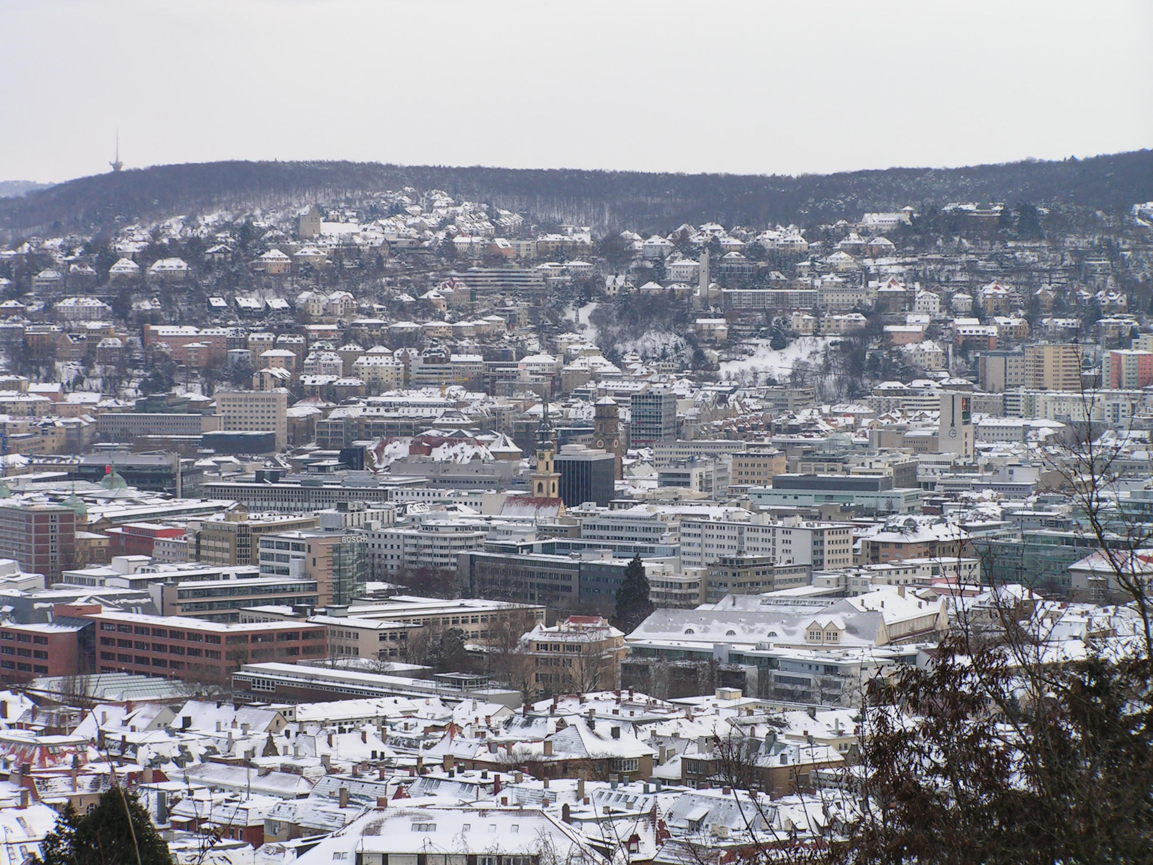 Stuttgart city centre and surrounding hills